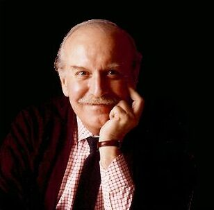 Personal picture of Sergio Asti.